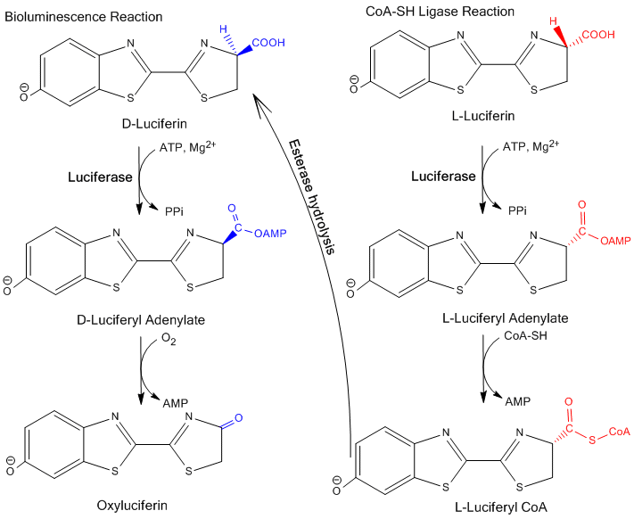 The two pathways of luciferase activity